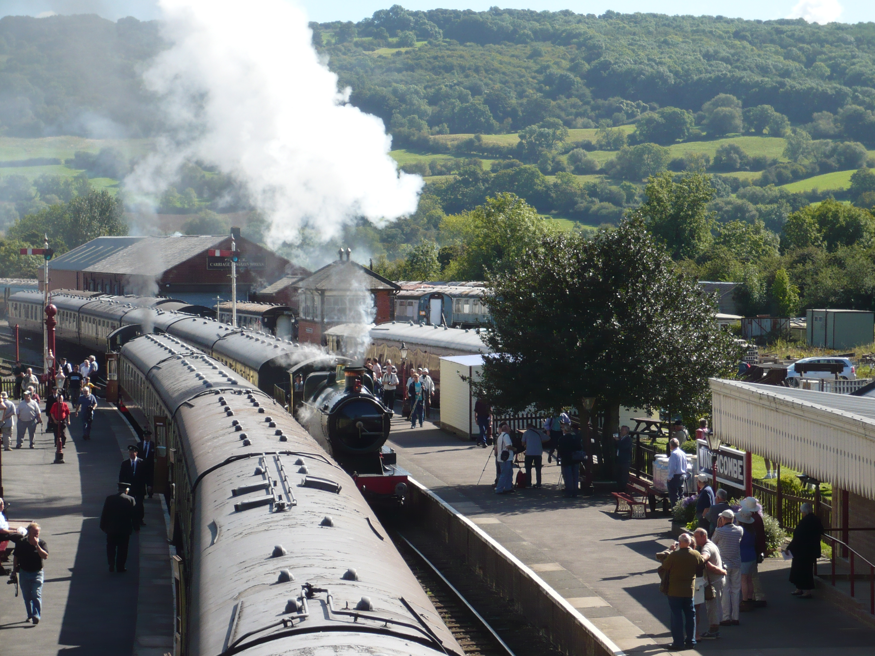 Winchcombe Stattion